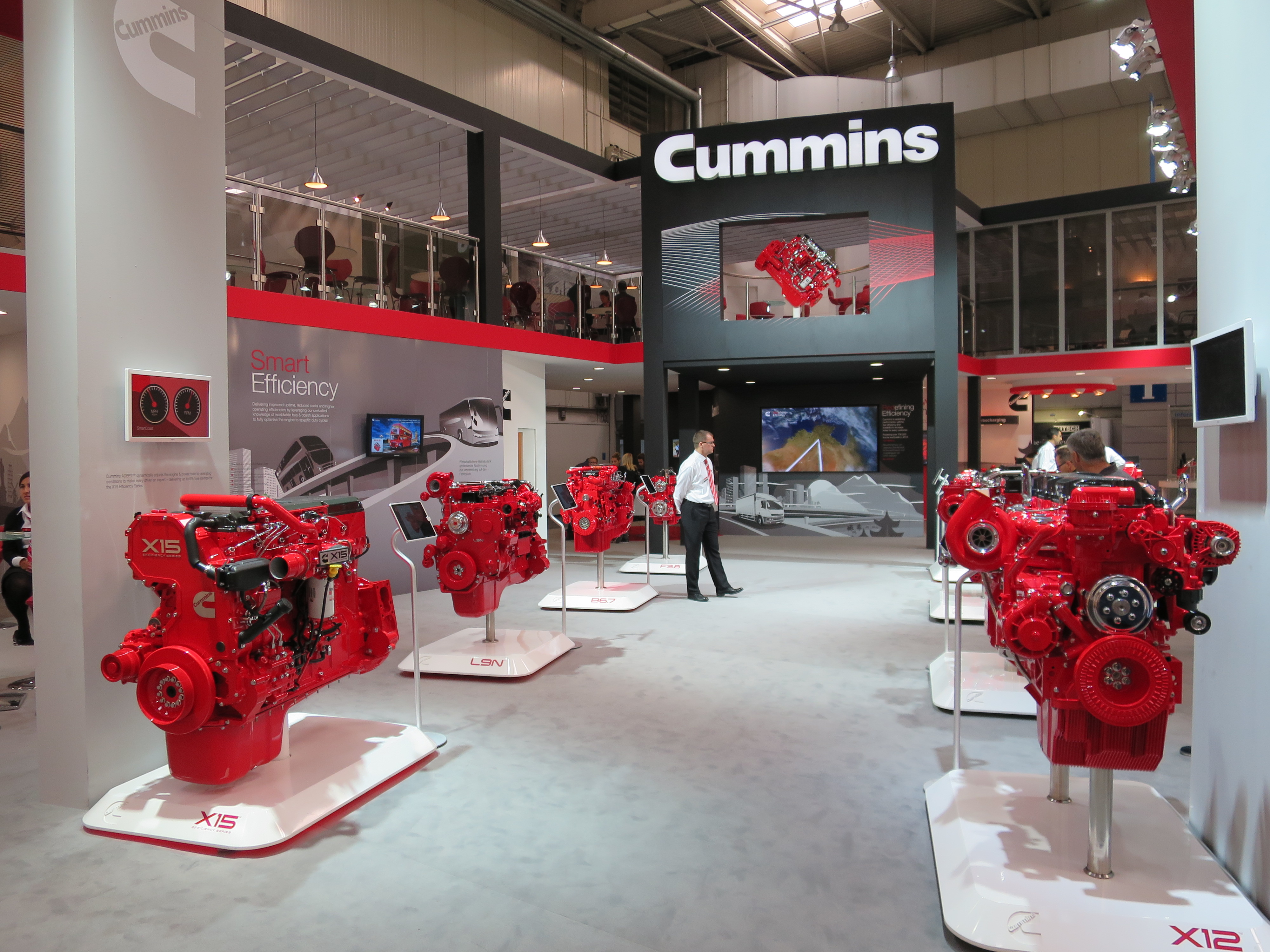 The making of this document was supported by Wikimedia Polska Association, within Wikigrant no. WG 2016-35. English | polski | +/− Cummins